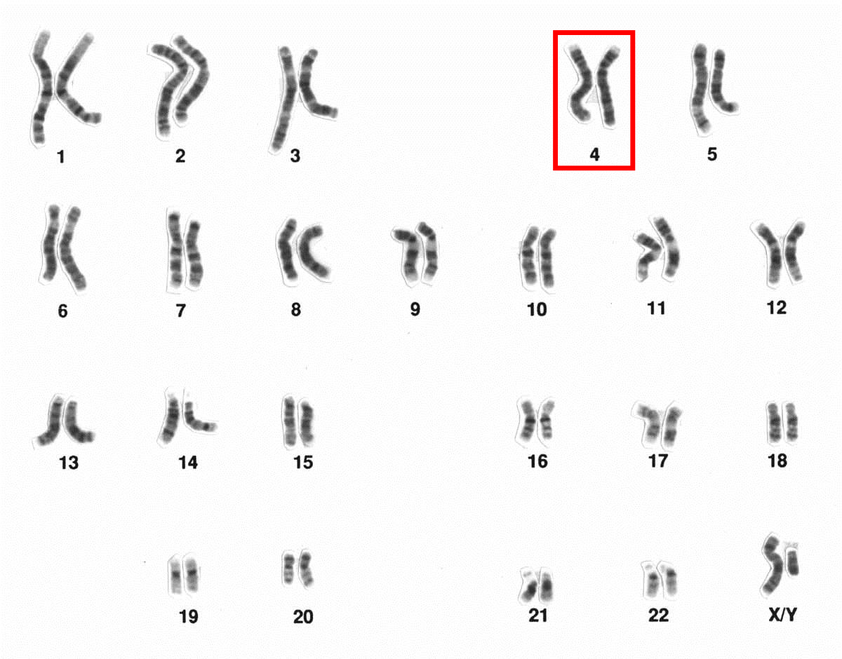 Human male Karyotype after G-banding. Chromosome 4 highlighted